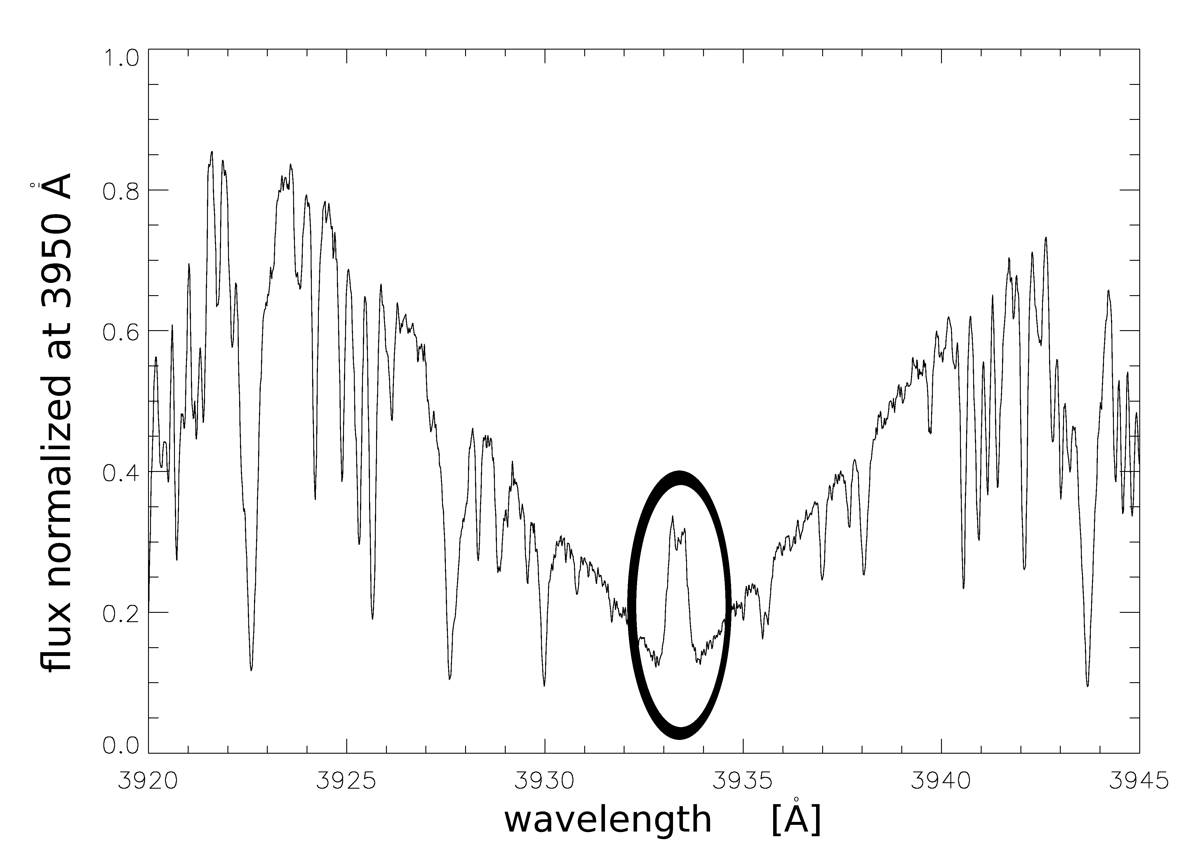 A spectrum, taken with UVES at the Very Large Telescope, of the K line of KW 326, a dwarf star in the Praesepe open cluster.